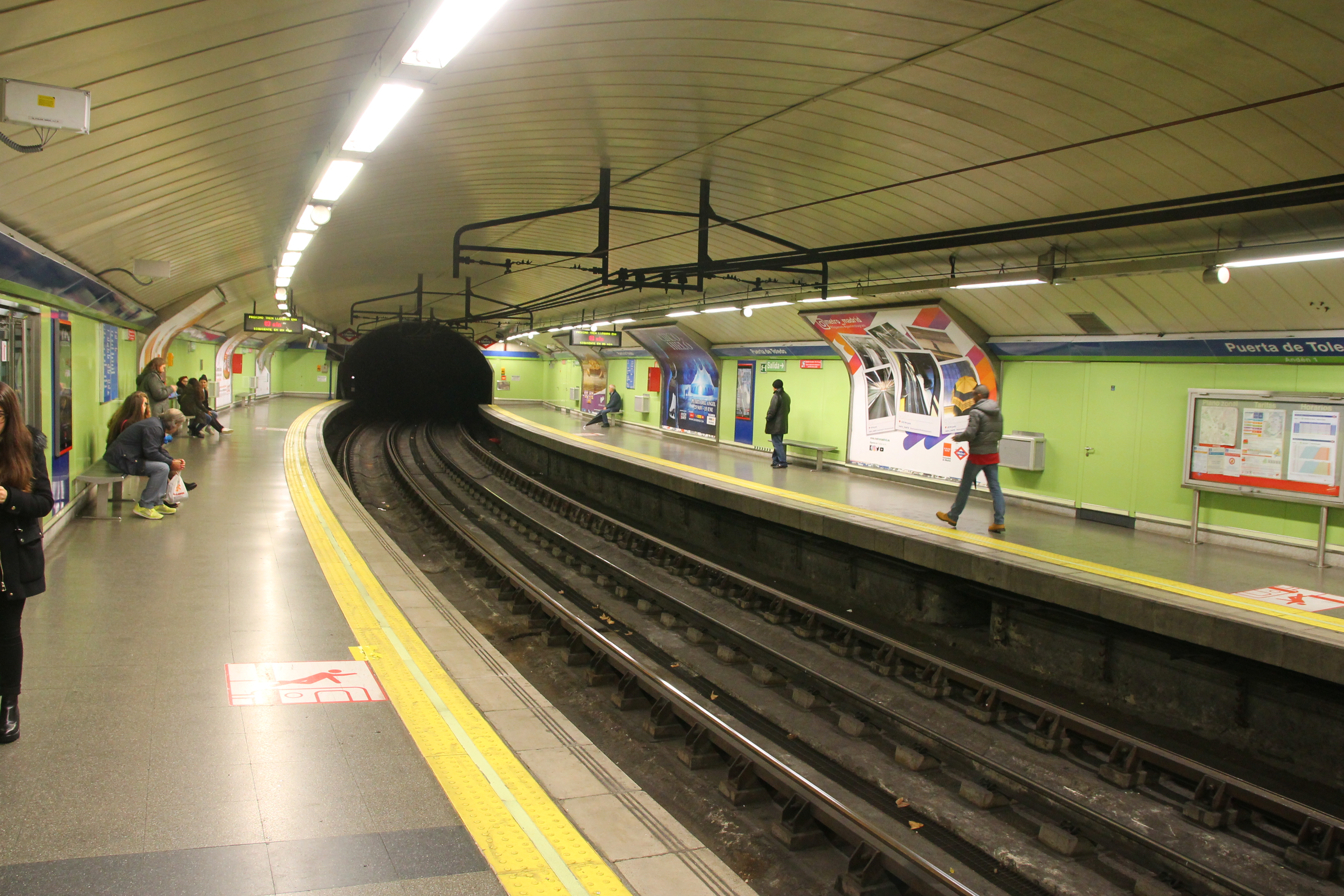 Estación de Puerta de Toledo